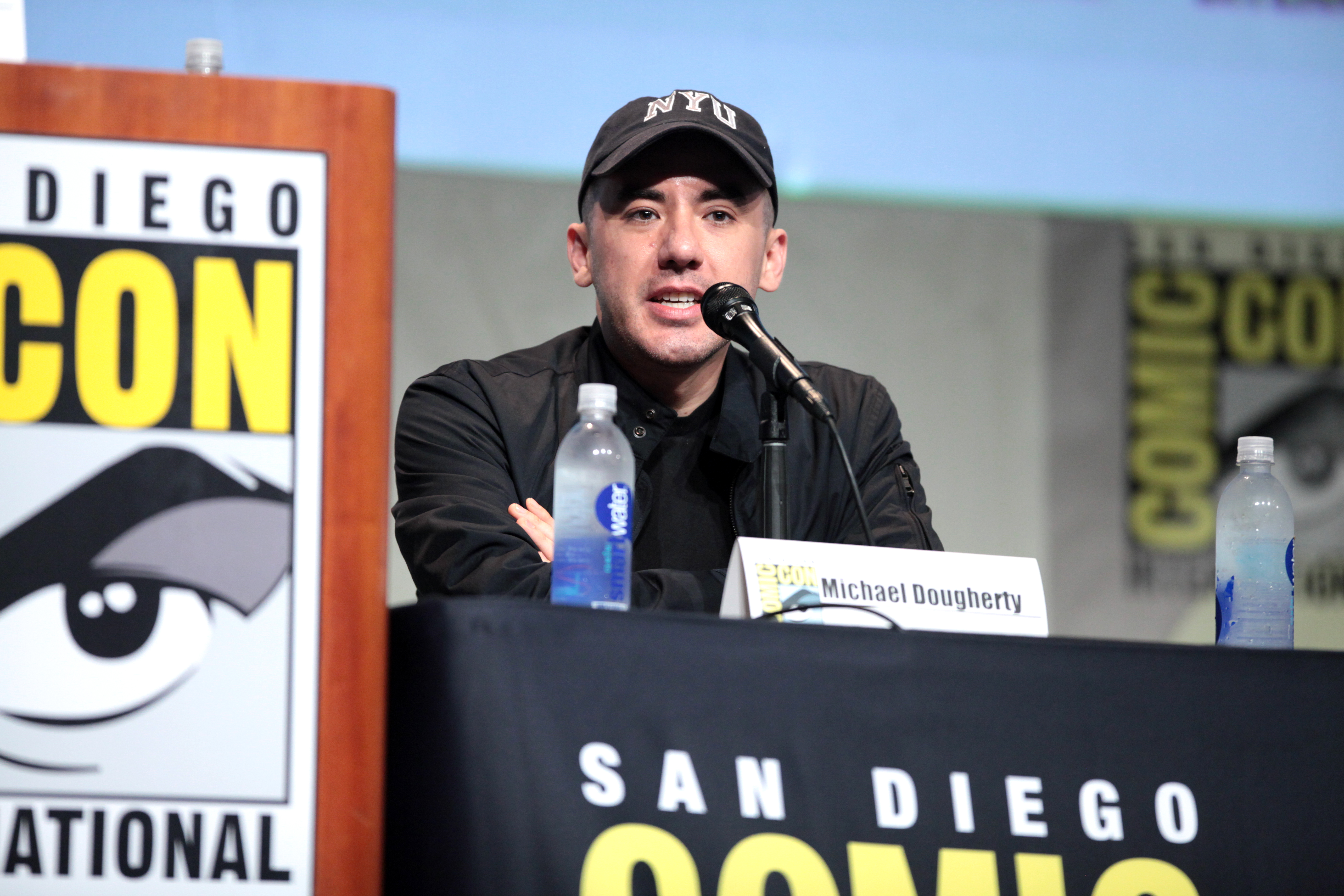 Michael Dougherty speaking at the 2015 San Diego Comic Con International, for "Krampus", at the San Diego Convention Center in San Diego, California.